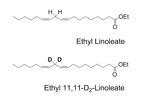 Chemical formulae of ethyl linoleate ordinary and its deuterated version 11,11-D2-ethyl linoleate